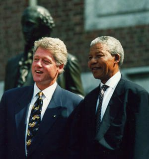 President Bill Clinton with Nelson Mandela, July 4 1993.